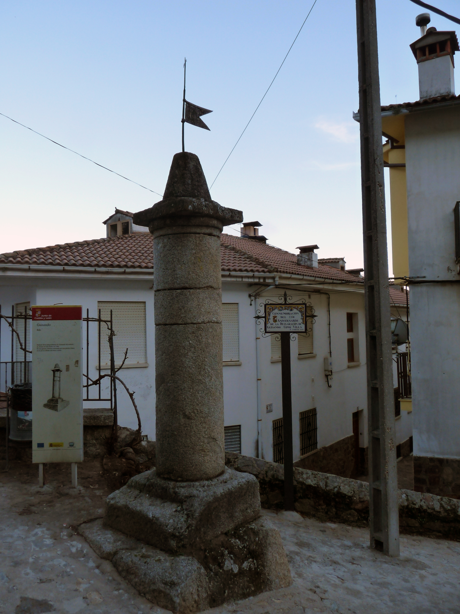 Guisando, province of Ávila, Castile and León, Spain.